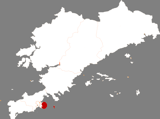 Location of Zhongshan district in Dalian City, China